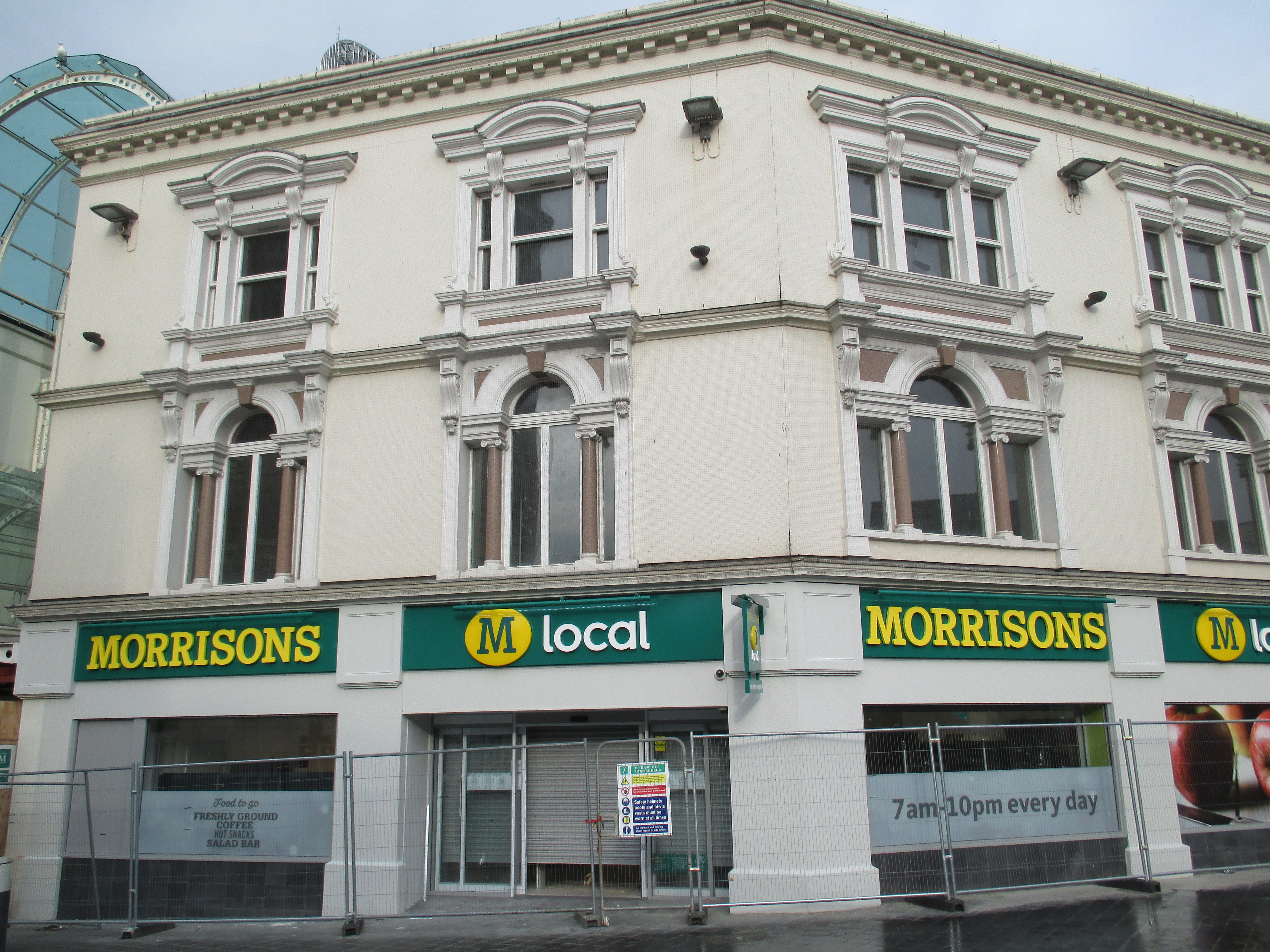 New Morrisons M Local store on the corner of Church Street and Ranelagh Street, Liverpool. Photographed prior to first opening.